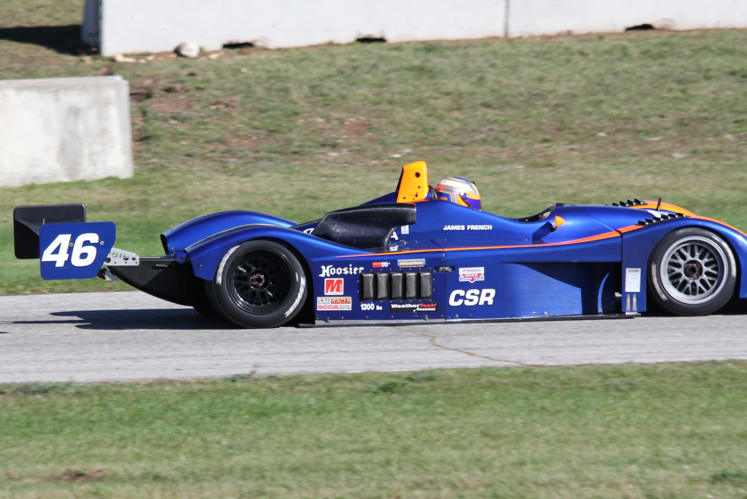 James French racing to a 3rd place finish in CSR (C Sport racing) at the 2013 SCCA National Championship runoffs.